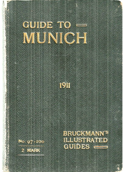 cover of: Guide to Munich Germany, 1911. Bruckmann's Illustrated Guides